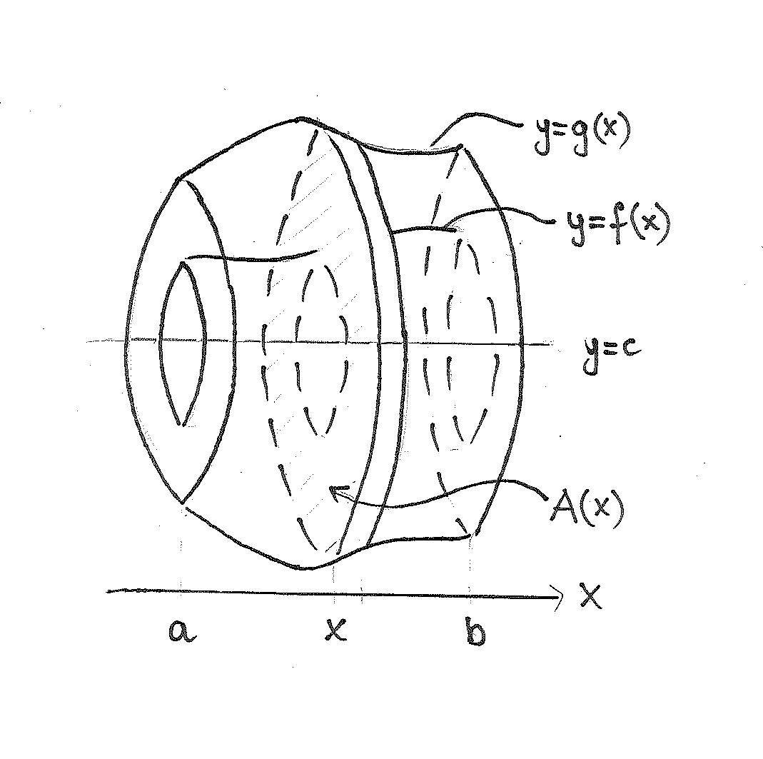 The volume of a solid of revolution can be calculated by dividing the solid into thin slices and thereafter adding the volumes of these slices. The sum volume of the slices is equal the volume of the solid of revolution.